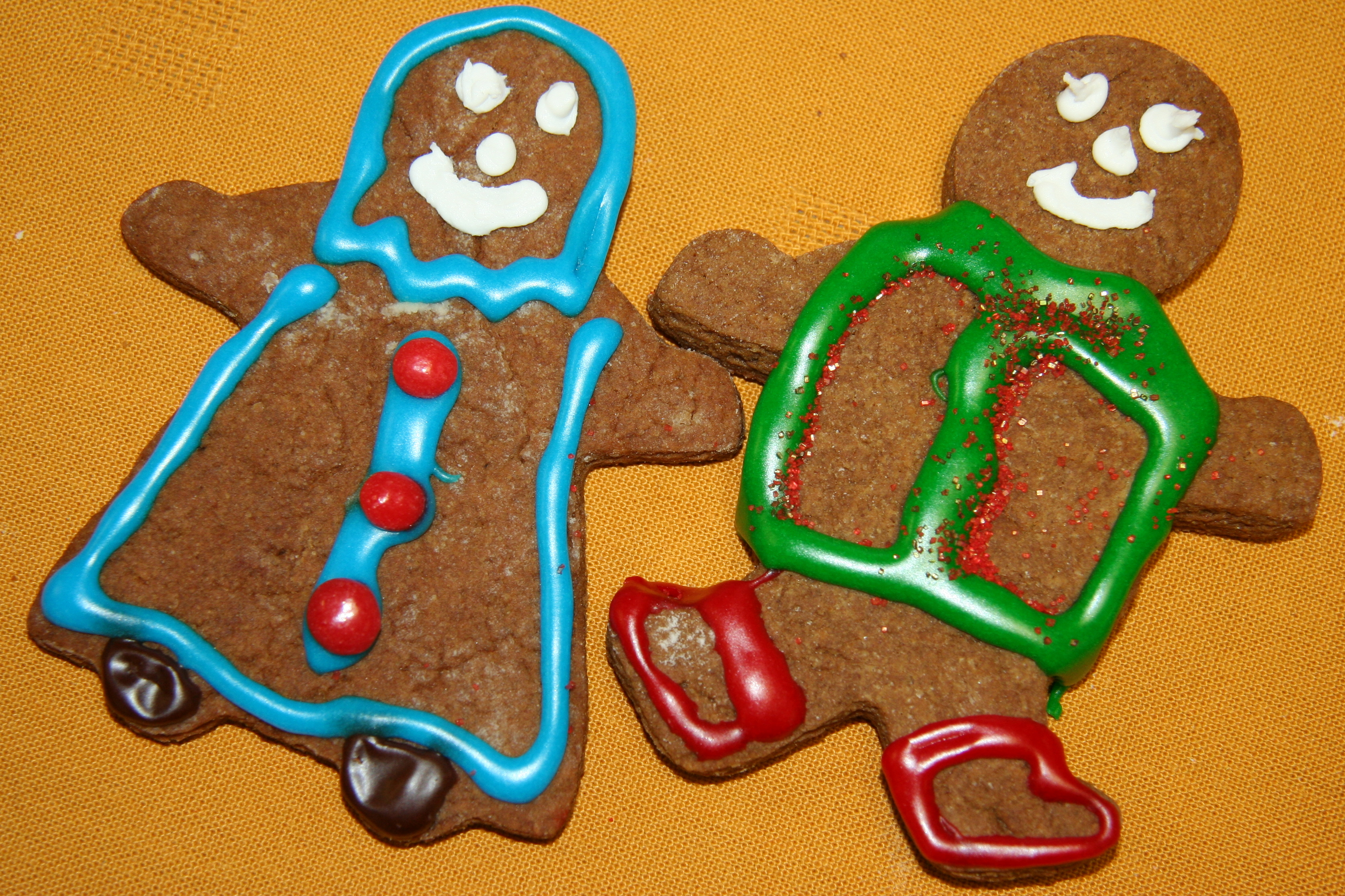 Gingerbread cookies decorated as woman and man